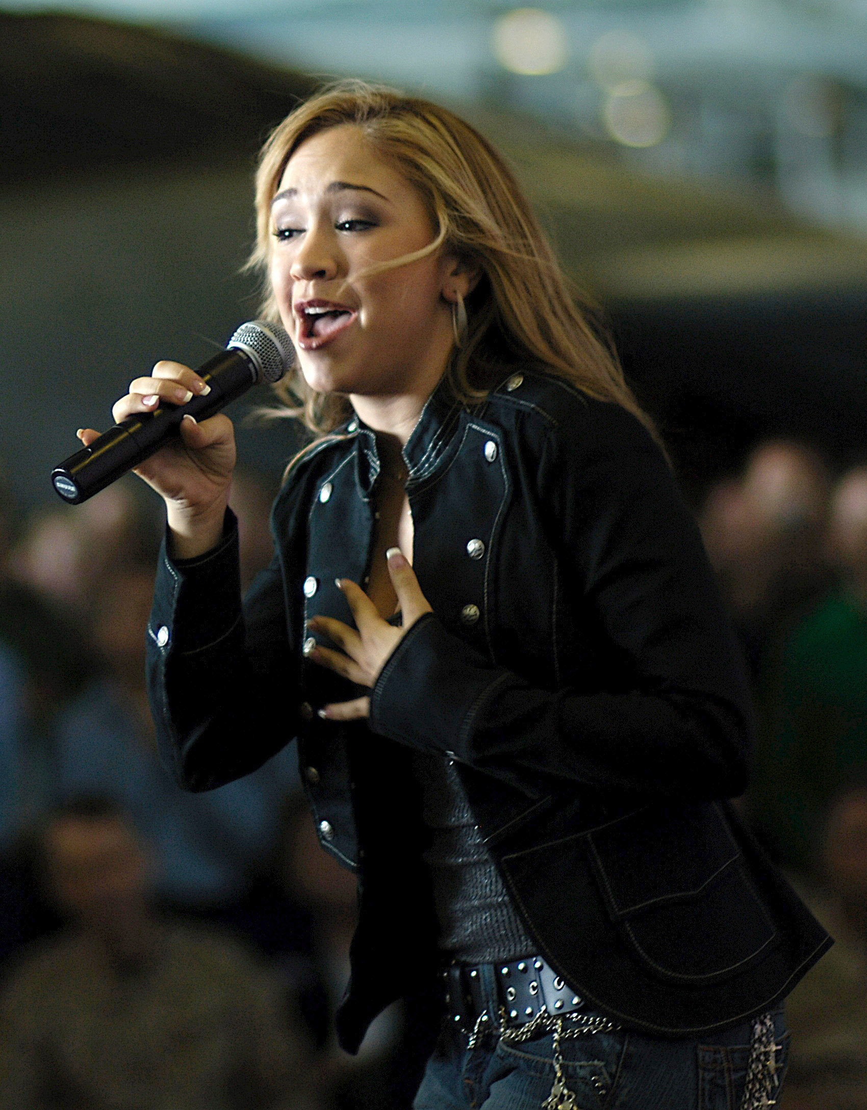 051229-F-0193C-028 Persian Gulf – American Idol singer Diana DeGarmo performs for the Sailors aboard the Nimitz-class aircraft carrier USS Theodore Roosevelt (CVN 71) during a United Service Organization (USO) show in the ship’s hangar bay. Roosevelt and embarked Carrier Air Wing Eight (CVW-8) are underway on a regularly scheduled deployment conducting maritime security operations.